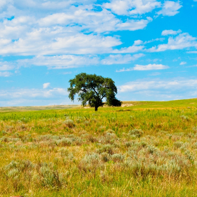 Nebraska Tree, On rt 92, just before Cisco, Nb. A stop on the way to the Tetons.